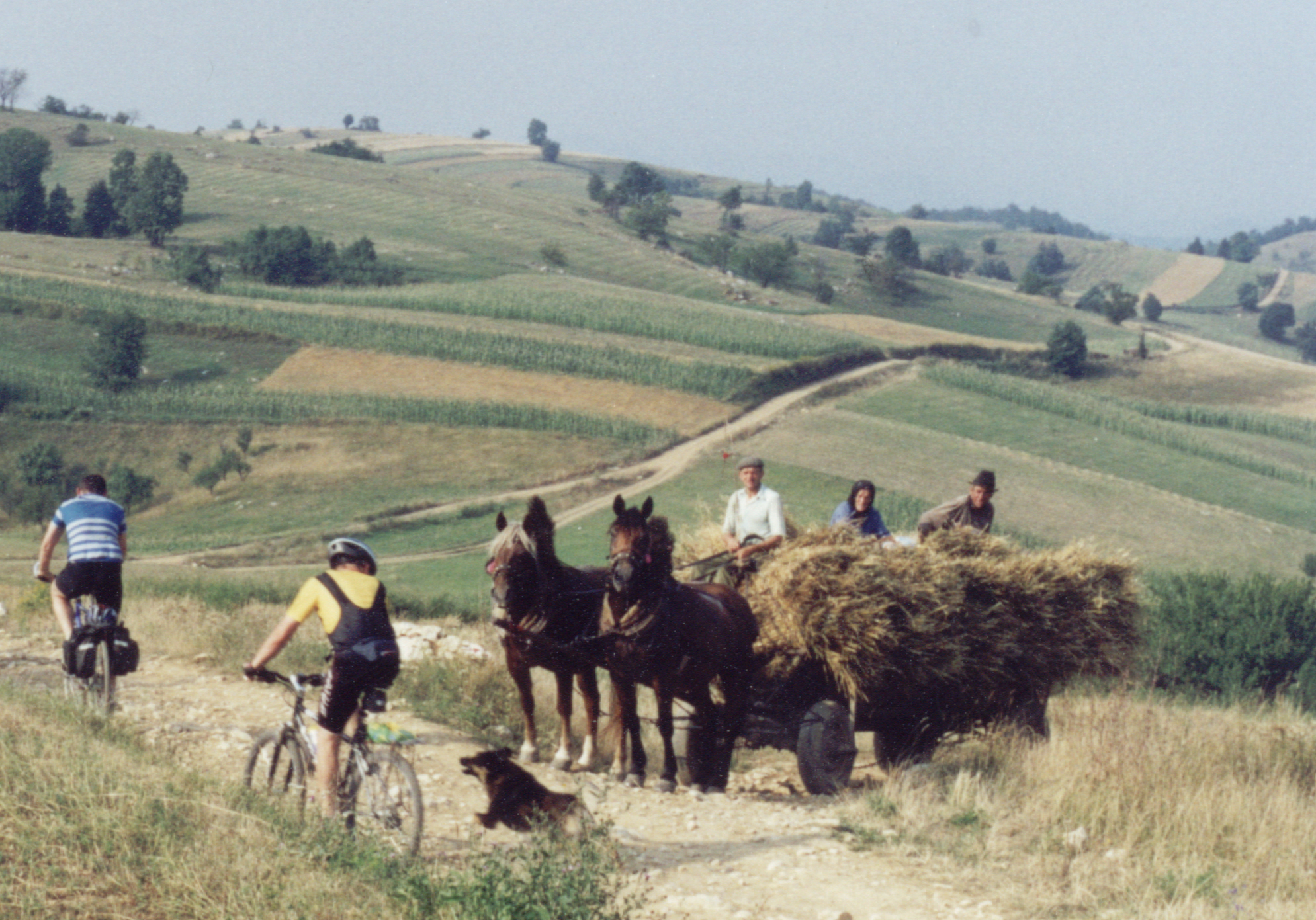 Two bikers leaving Gârnic (Gerník), Caraș-Severin County, Romania (road to Sopotu Nou). Scanned on a cheap scanner, in case you would need a better resolution let me know.